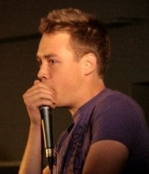 Liam Banks-Carr beatboxing at Audio club Brighton